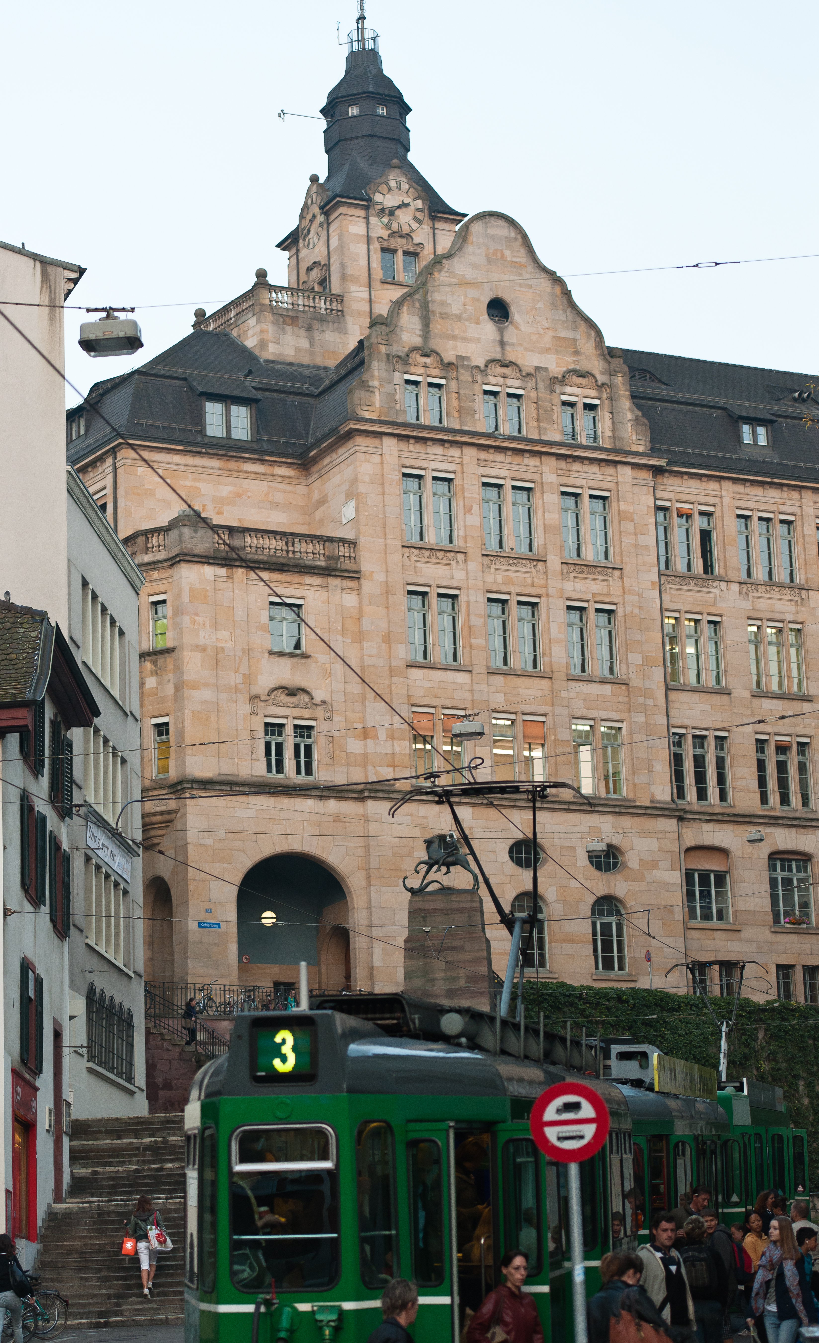 Leonhard Gymnasium taken from Barfuesserplatz